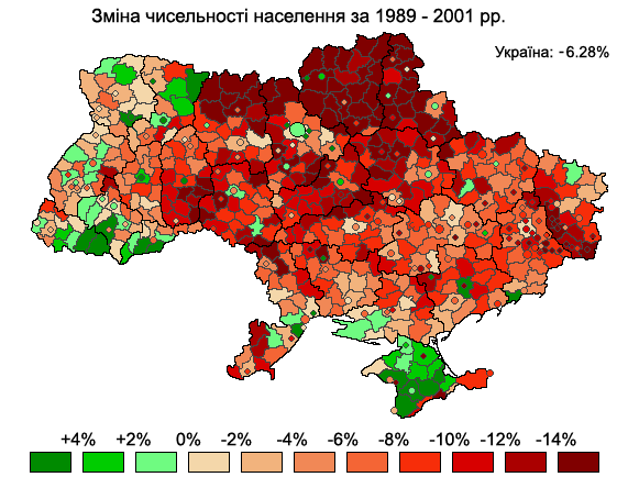 Population change in Ukraine between 1989 and 2001 censuses.